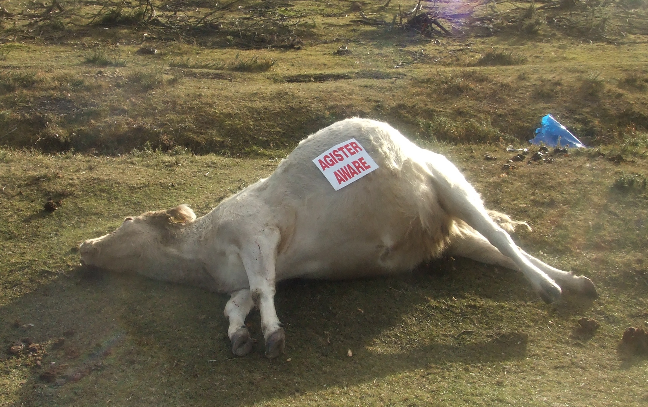 A dead cow by the side of Roger Penny Way in the New Forest - approx 2 miles east of Godshill. The banner states "Agister Aware" because the Agisters have legal authority in the New Forest.